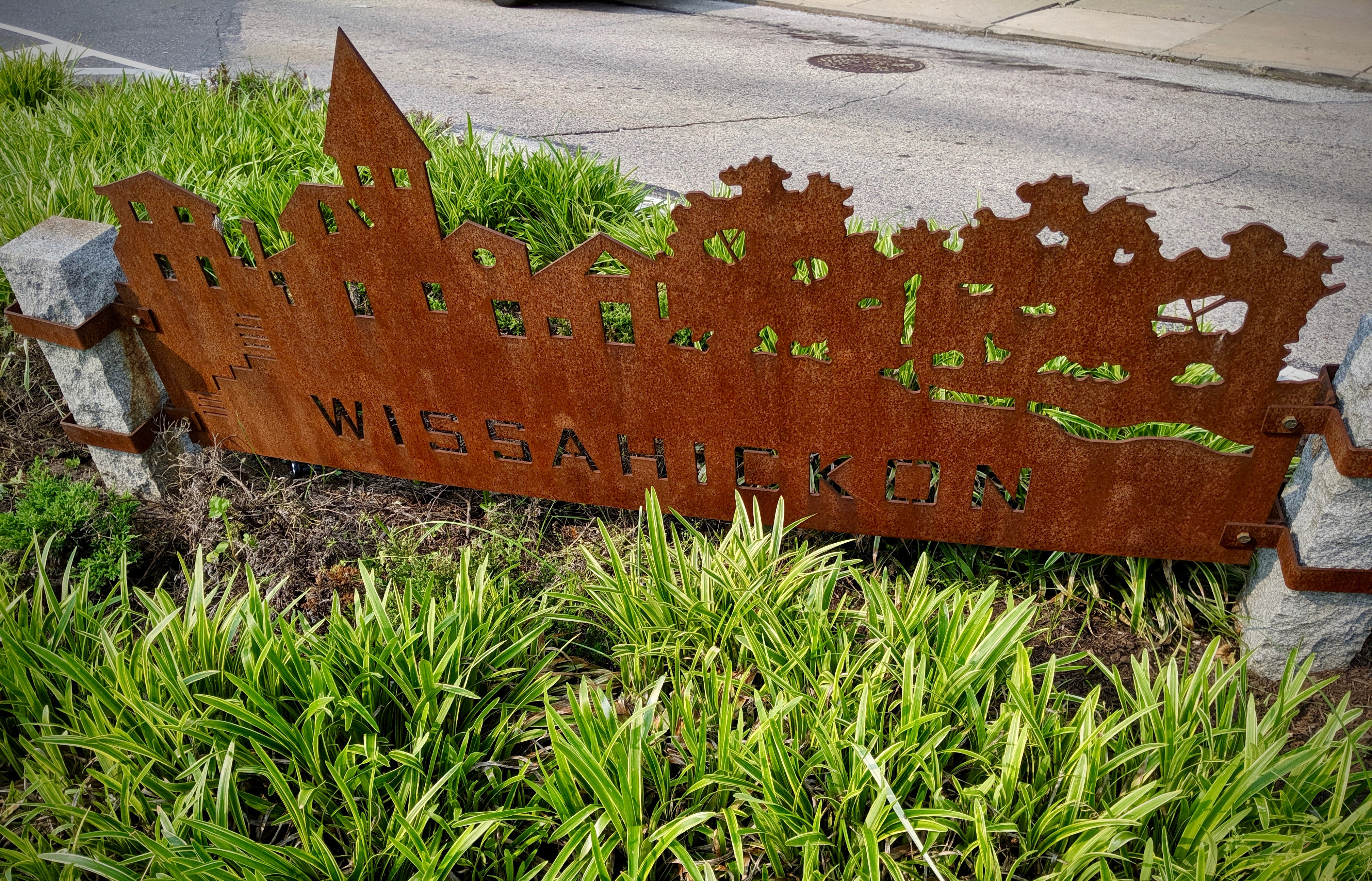 Neighborhood gateway sign located at the intersections of Ridge Avenue, Osborn Street, and Rochelle Avenue.